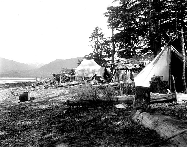 From John Cobb field notebook: Temporary camp of king salmon trollers at Vallenar Point, Alaska. June 2, 1910 Subjects (LCTGM): Work camps--Alaska--Vallenar Point Subjects (LCSH): Salmon industry--Alaska--Vallenar Point; Fish drying--Alaska--Vallenar Point; Tents--Alaska--Vallenar Point; Food--Preservation--Alaska--Vallenar Point